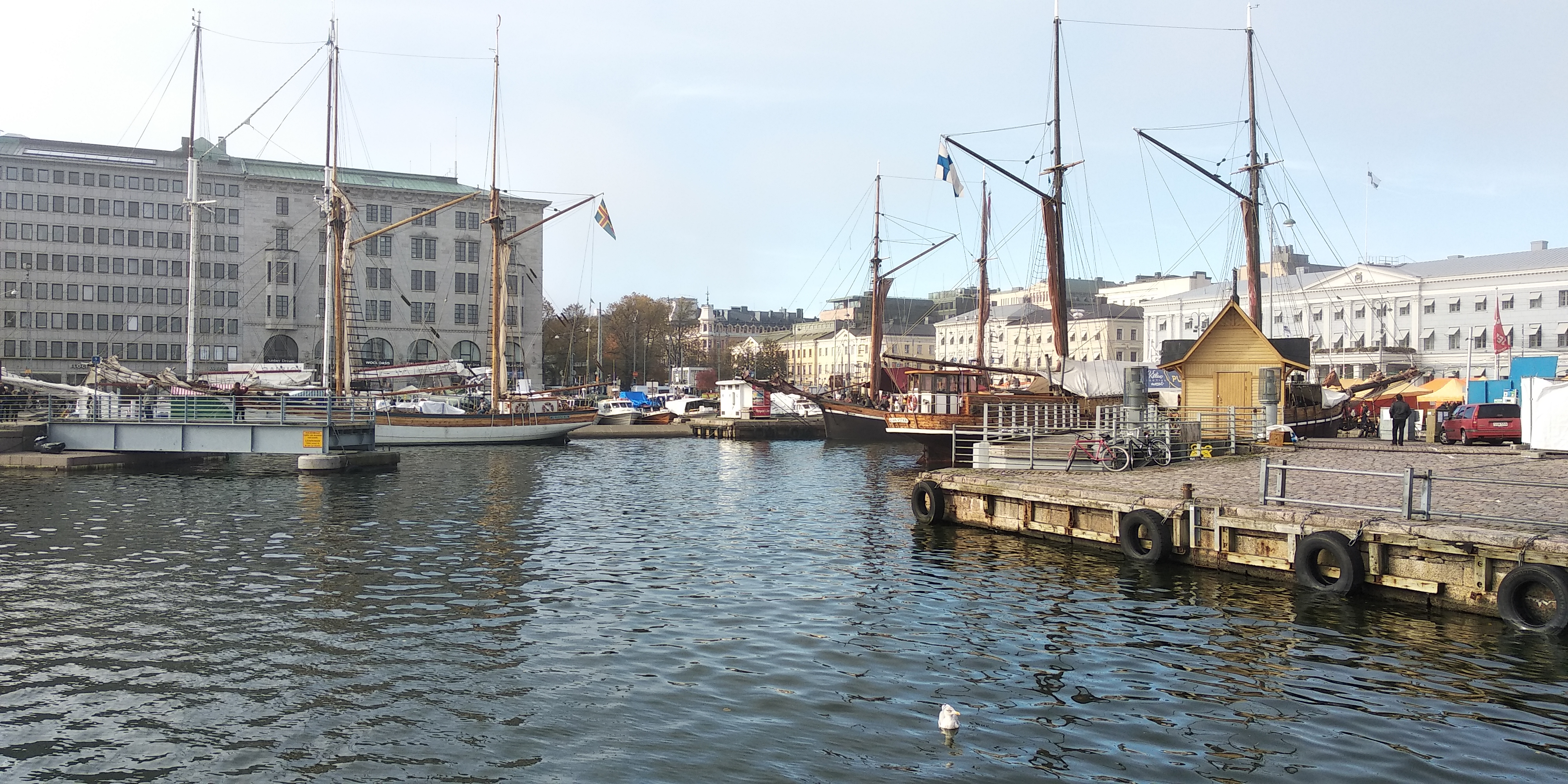 Market Square and the harbor in Helsinki, Finland.